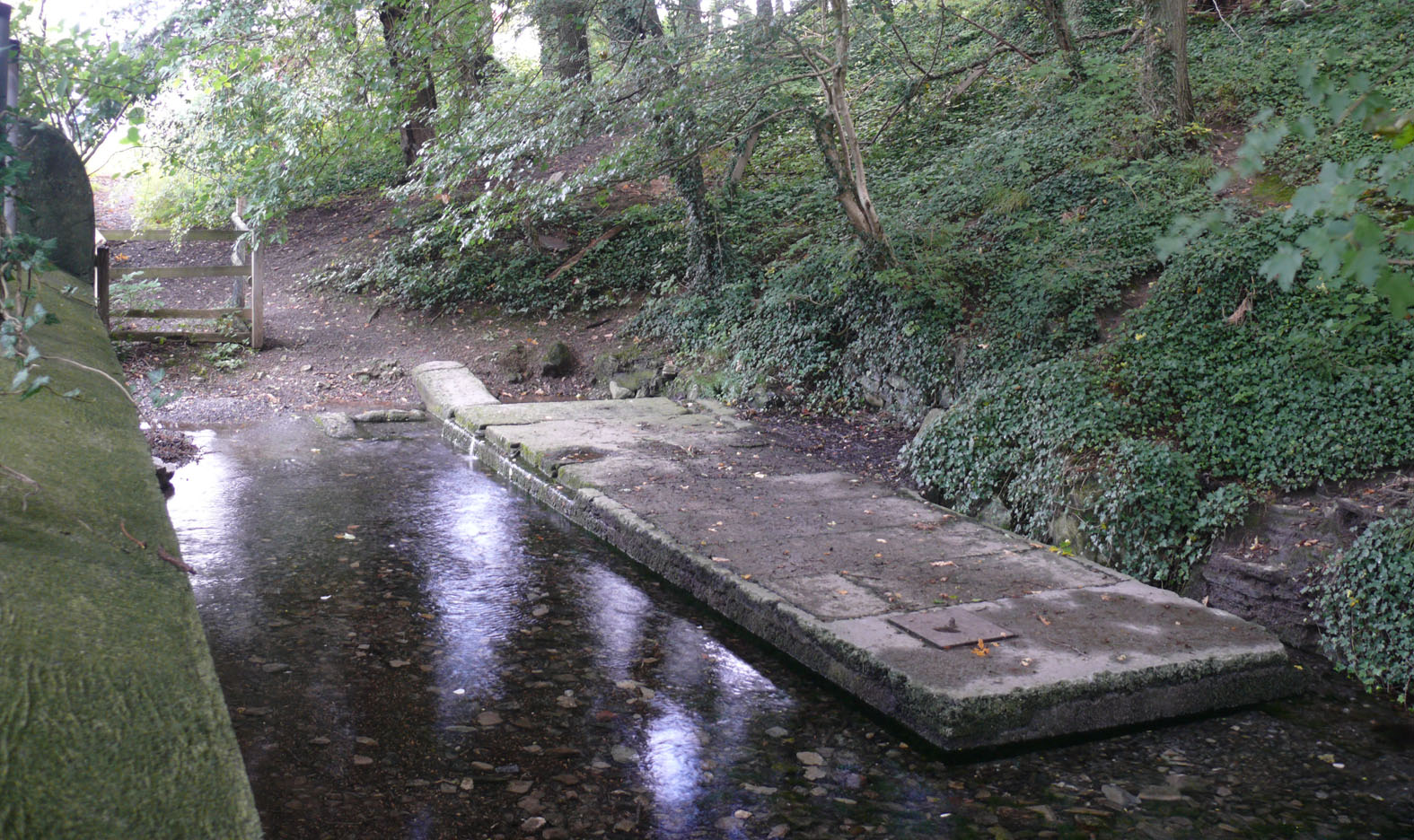 Well of the Treise